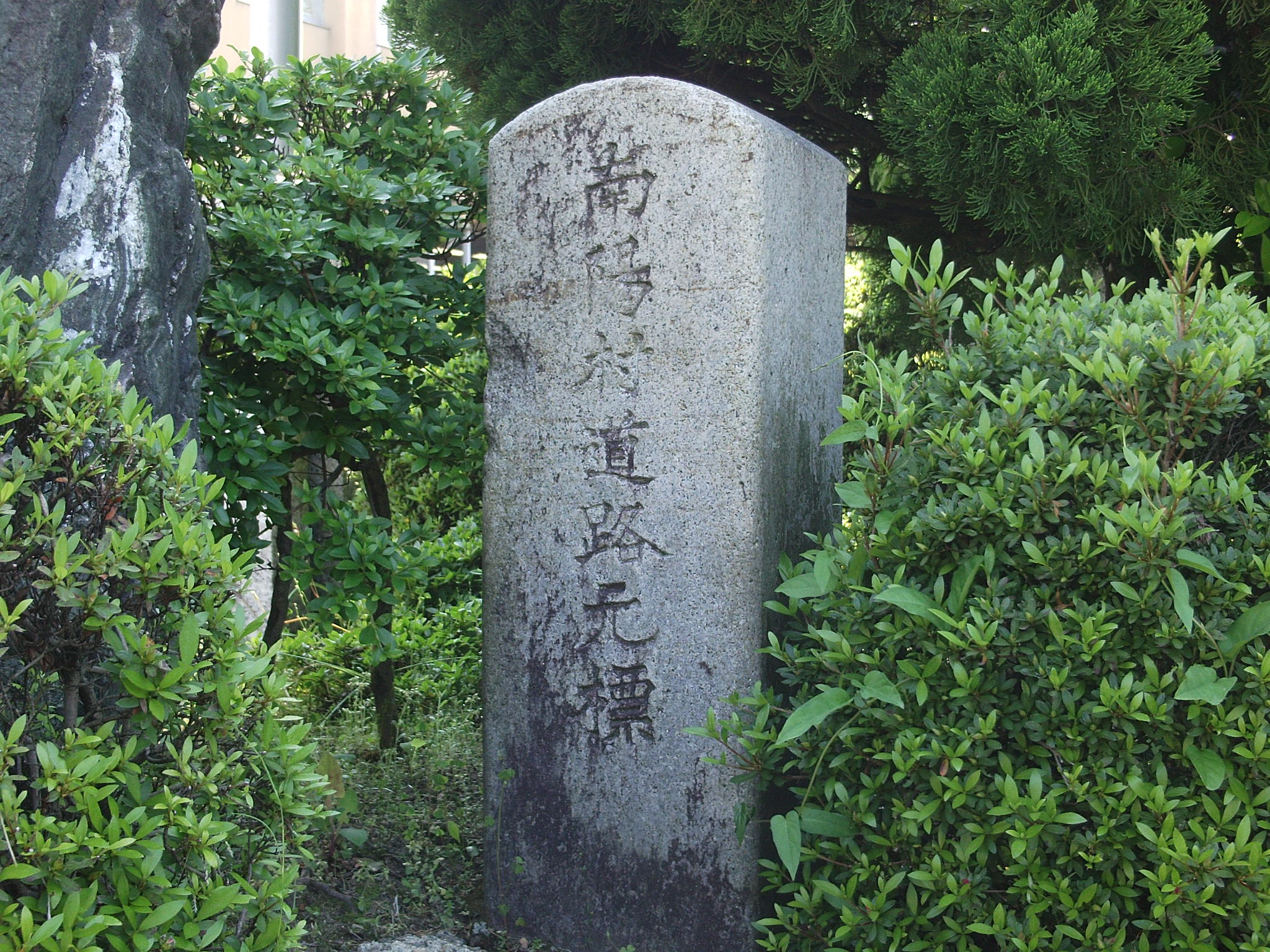 Kilometre zero of Nanyo village. (Nanyo village, Ama-gun, Aichi.)